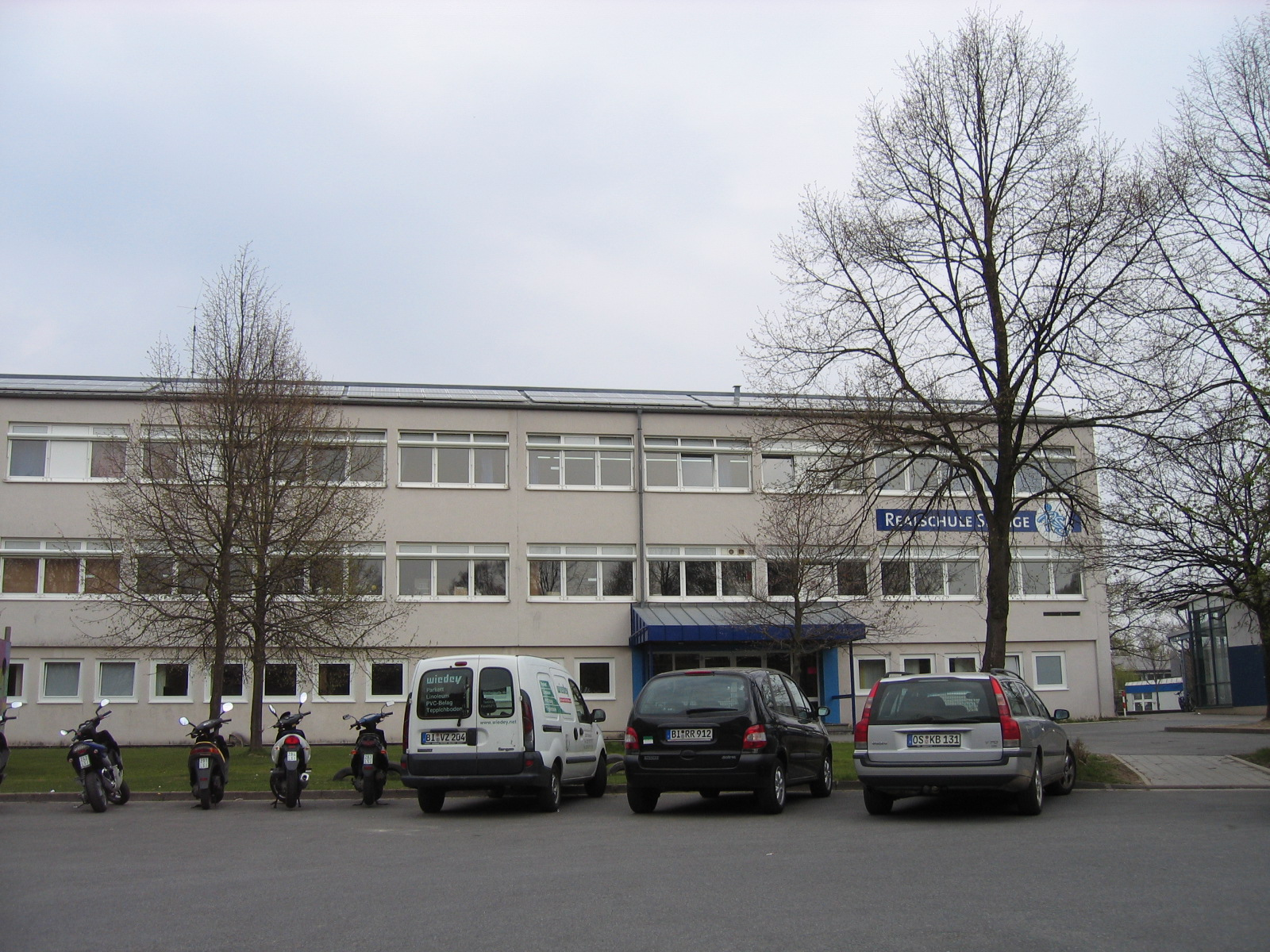 Spenge, District of Herford, North Rhine-Westphalia, Germany.